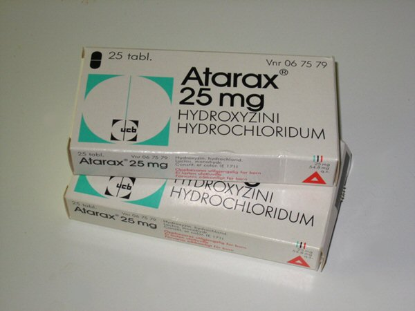 Boxes of Atarax-medicine